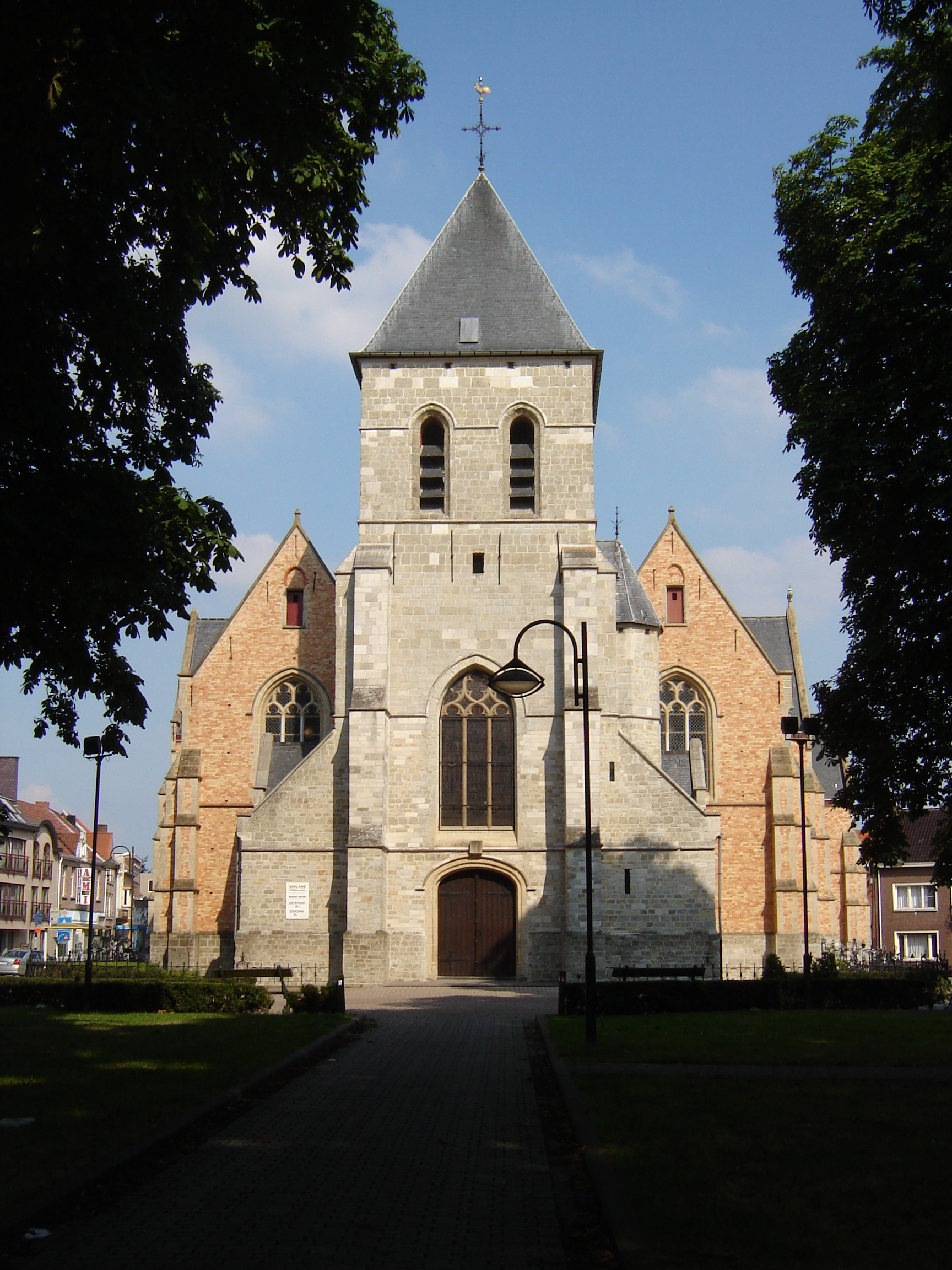 Church of Saint-Martin in Berlare. Berlare, East Flanders, Belgium